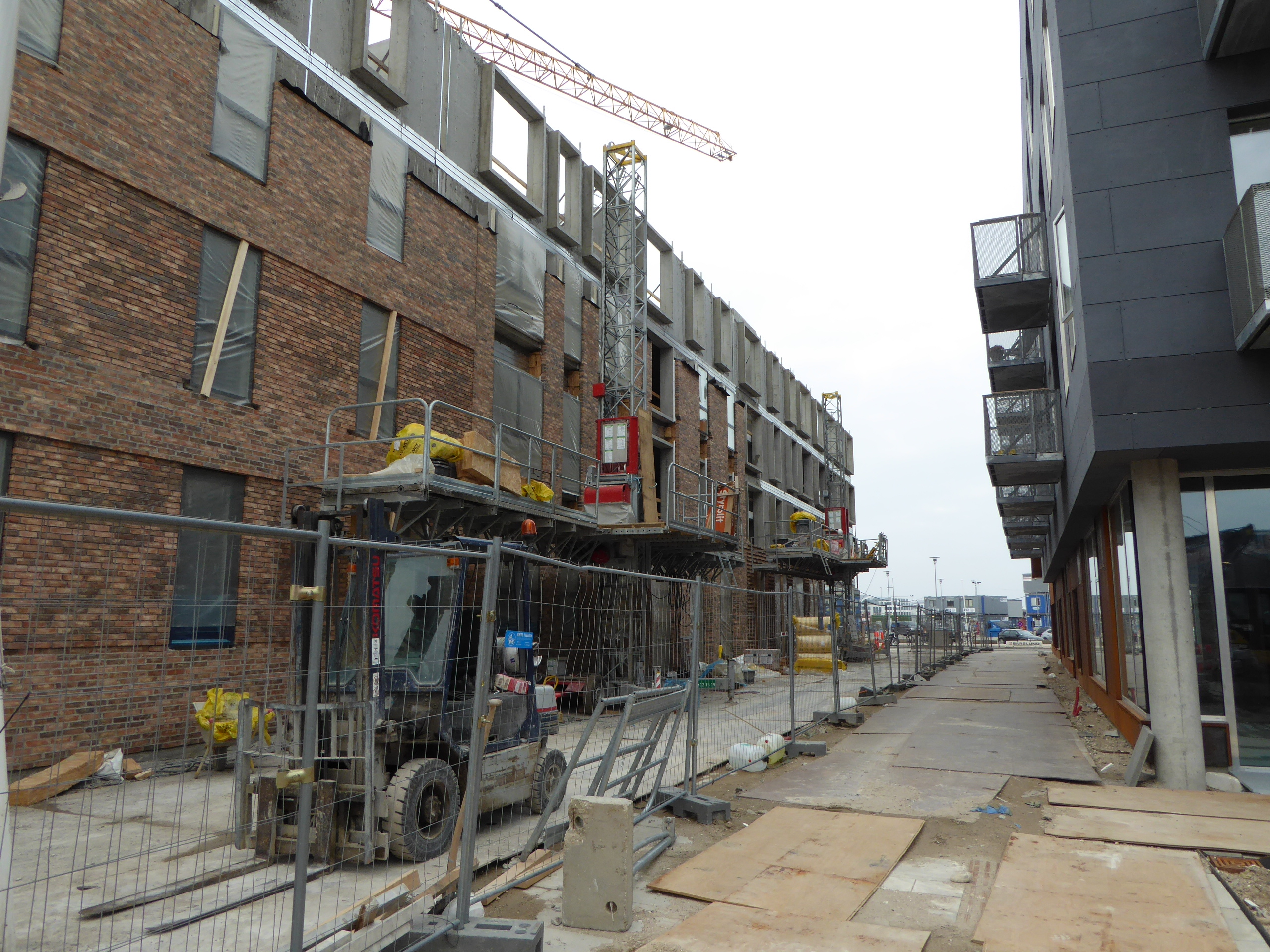 The street Travemündegade in Nordhavn in Copenhagen.